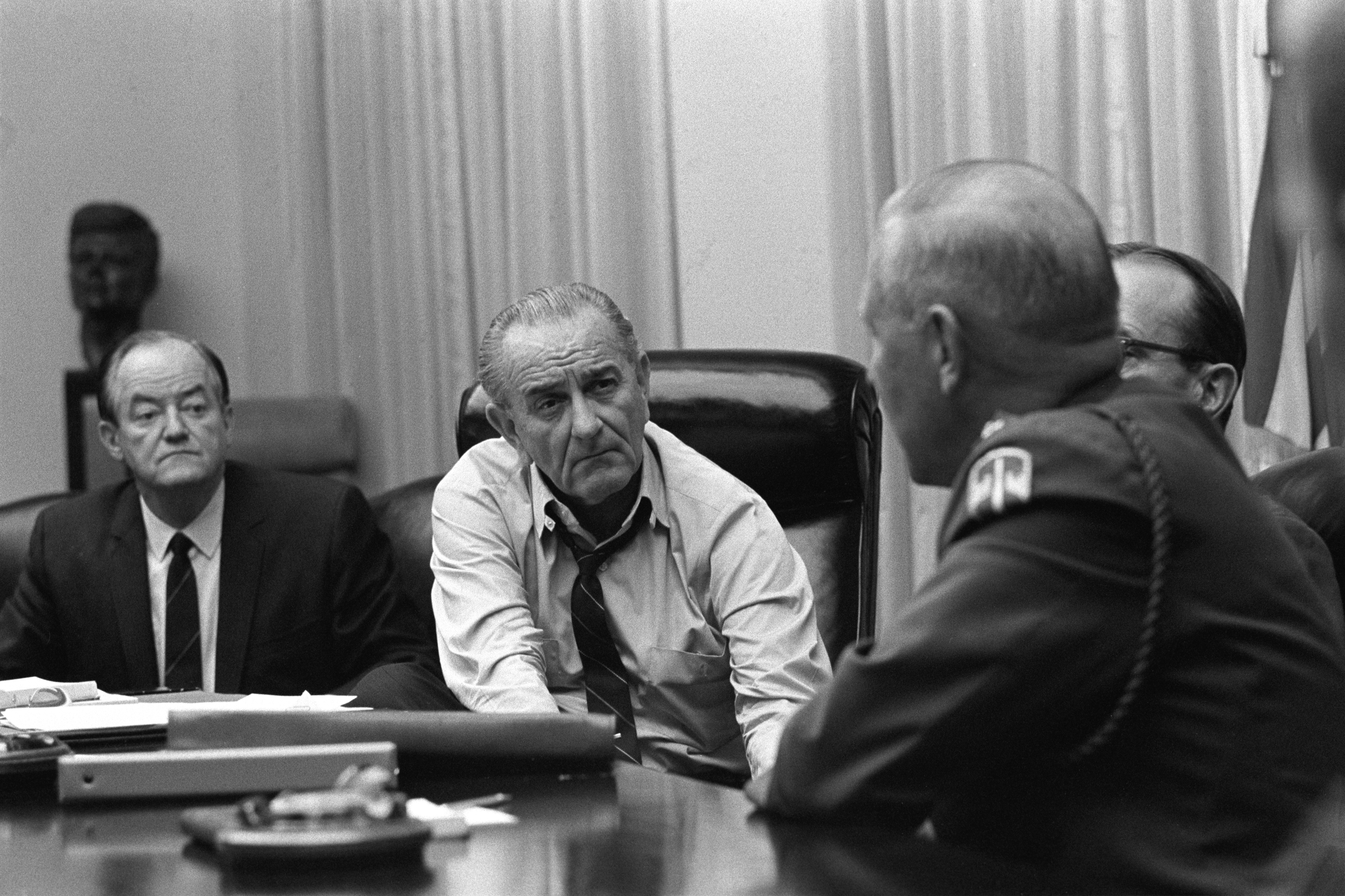 L-R: Vice President Hubert Humphrey, President Lyndon Johnson, and General Creighton Abrams in a Cabinet Room meeting, 27 March 1968. This media is available in the holdings of the National Archives and Records Administration, cataloged under the National Archives Identifier (NAID) 192616. This tag does not indicate the copyright status of the attached work. A normal copyright tag is still required. See Commons:Licensing. Creator: President (1963-1969: Johnson). White House Photograph Office. (1963 - 1969) ( Most Recent) Type of Archival Materials: Photographs and other Graphic Materials Level of Description: Item from Collection LBJ-WHPO: White House Photo Office Collection, 11/22/1963 - 01/20/1969 Location: Lyndon Baines Johnson Library (NLLBJ), 2313 Red River Street, Austin, TX 78705-5702 PHONE: 512-721-0212, FAX: 512-721-0170, Production Date: 03/27/1968 Access Restrictions: Unrestricted Use Restrictions: Unrestricted